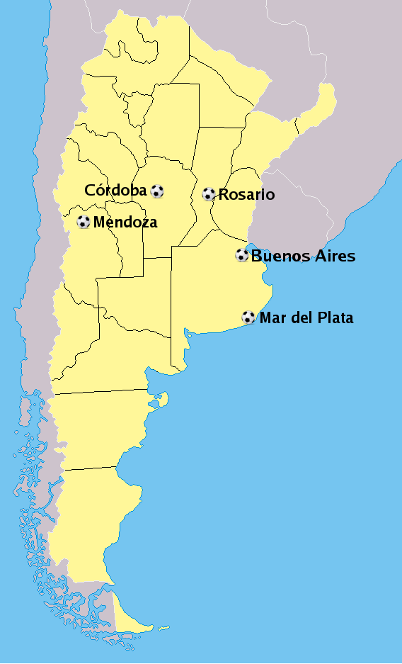 1978 FIFA World Cup venues